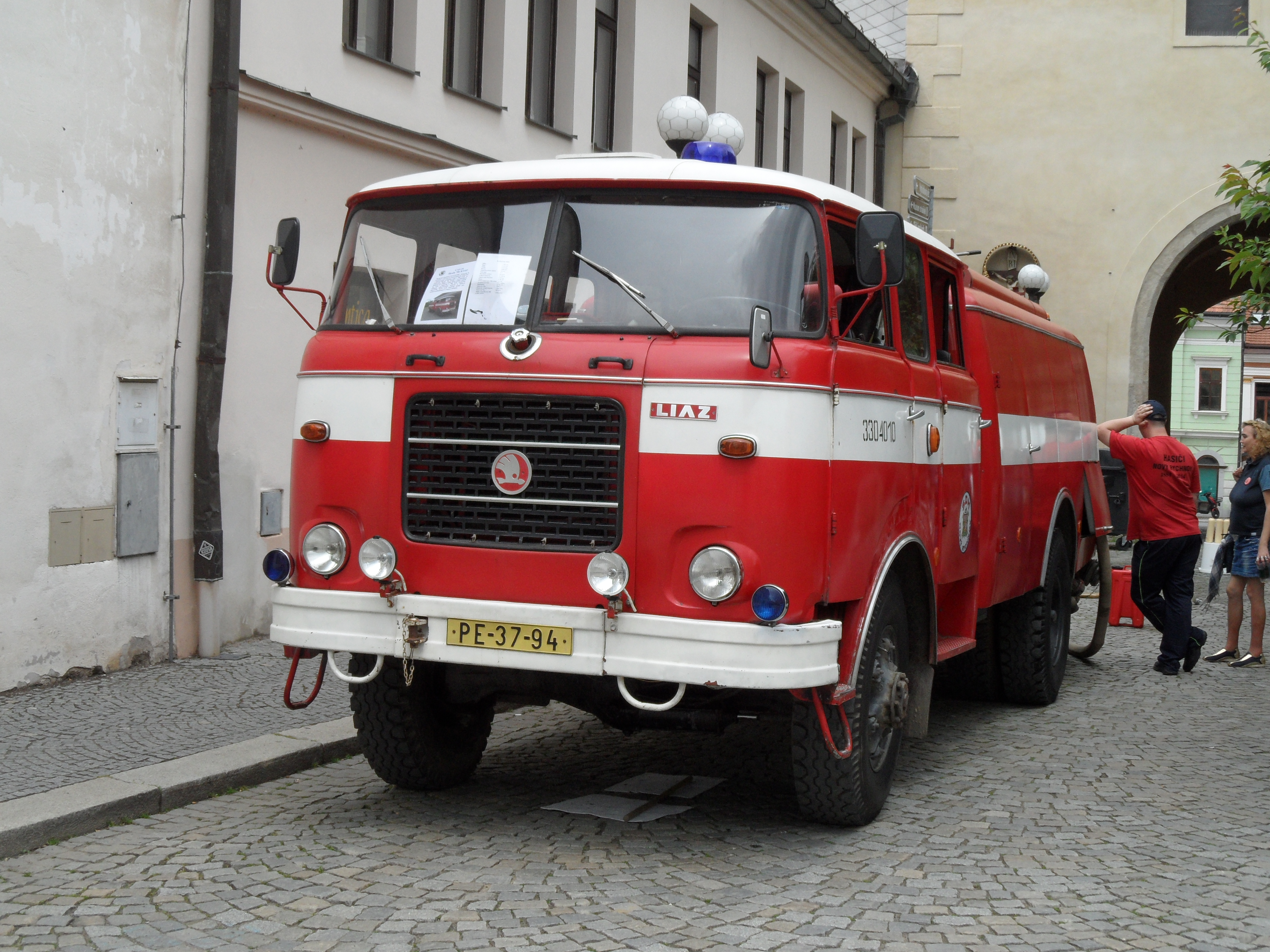 Festival Pelhřimov – the City of Records 2016: CAS 25 Škoda 706 RTHP, original vehicle used during shooting the series Návštěvníci (Visitors): 1983, now at Nový Rychnov. Pelhřimov District, the Czech Republic.